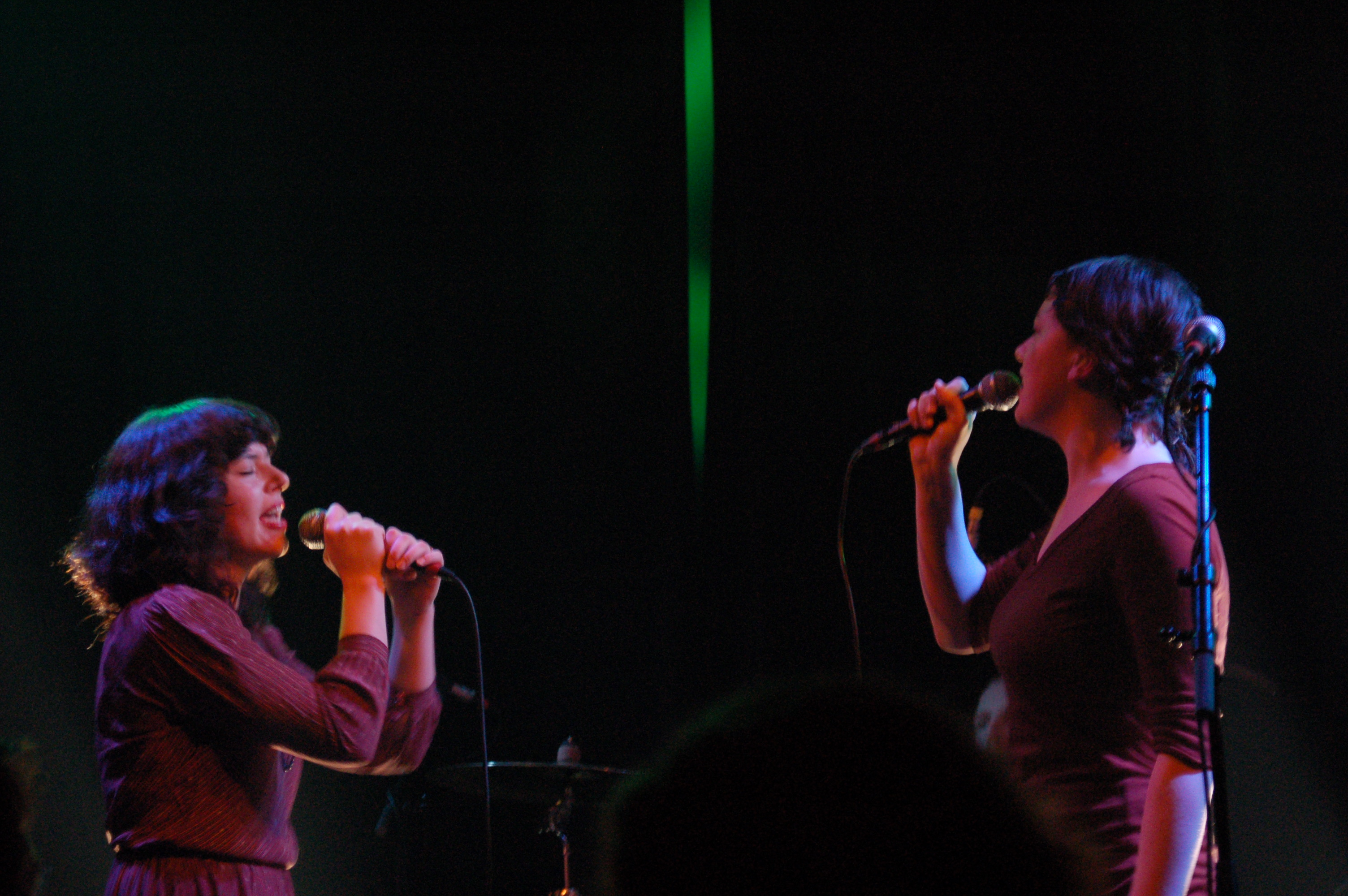 You Say Party! We Say Die! - Paradiso, Amsterdam 20.11.06